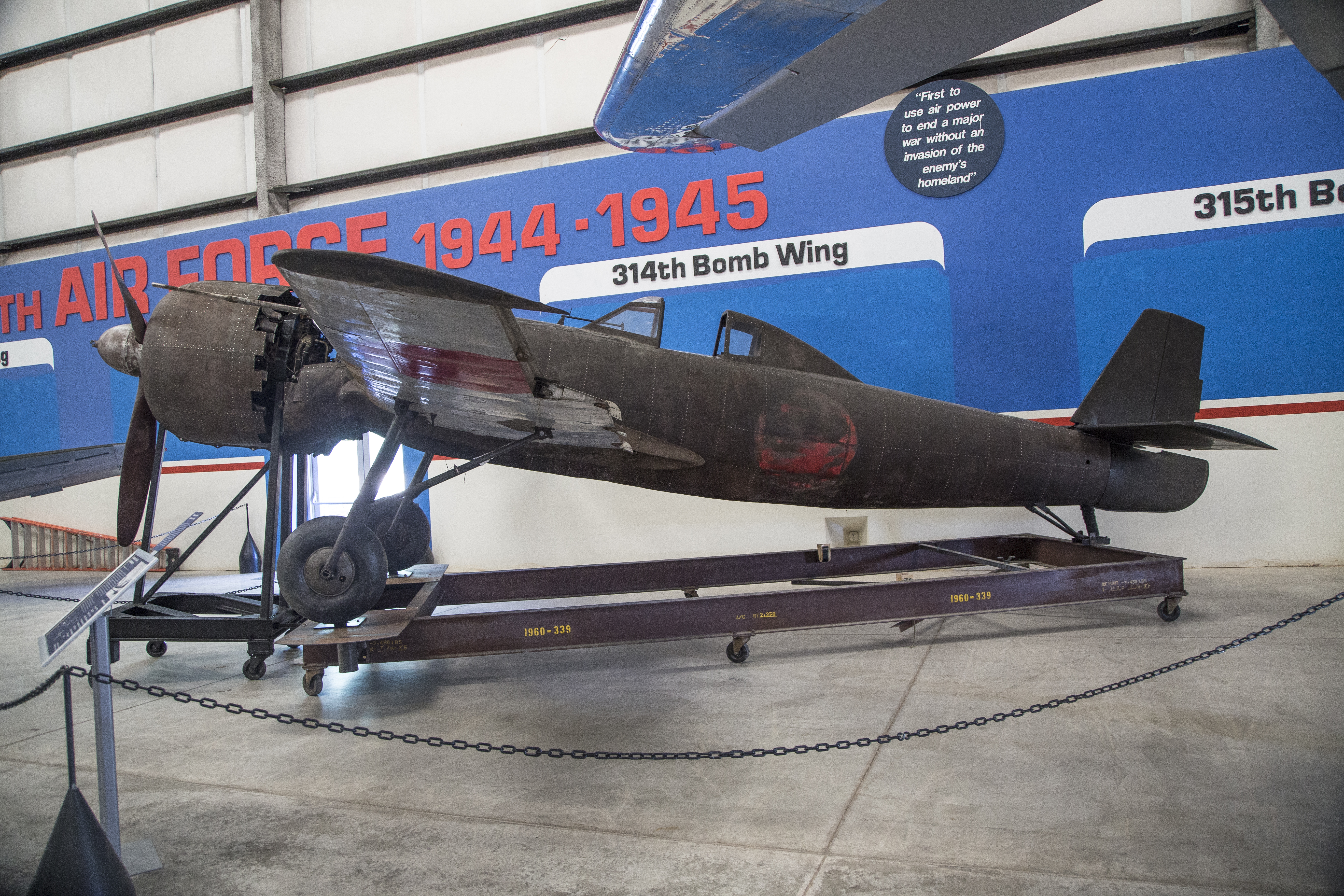 at Pima airspace museum